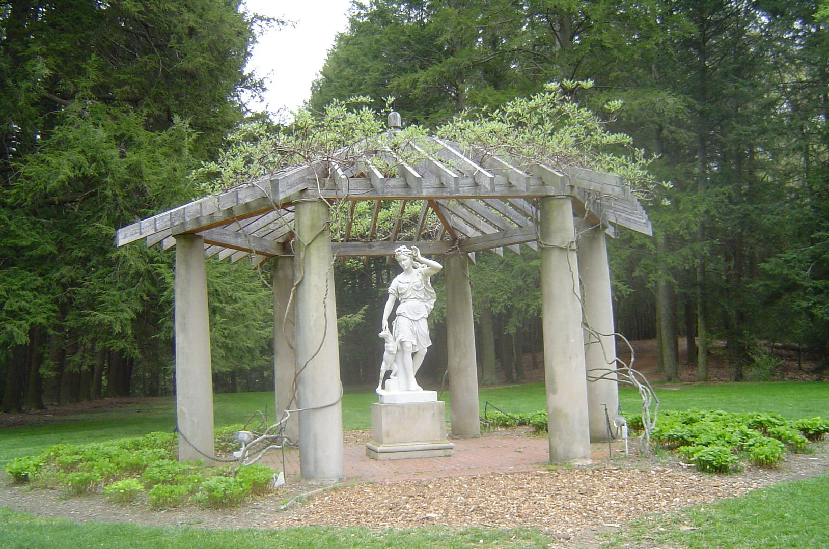 Pavilion with classical statue — in the Biltmore Estate gardens. At the Biltmore Estate, North Carolina, U.S.